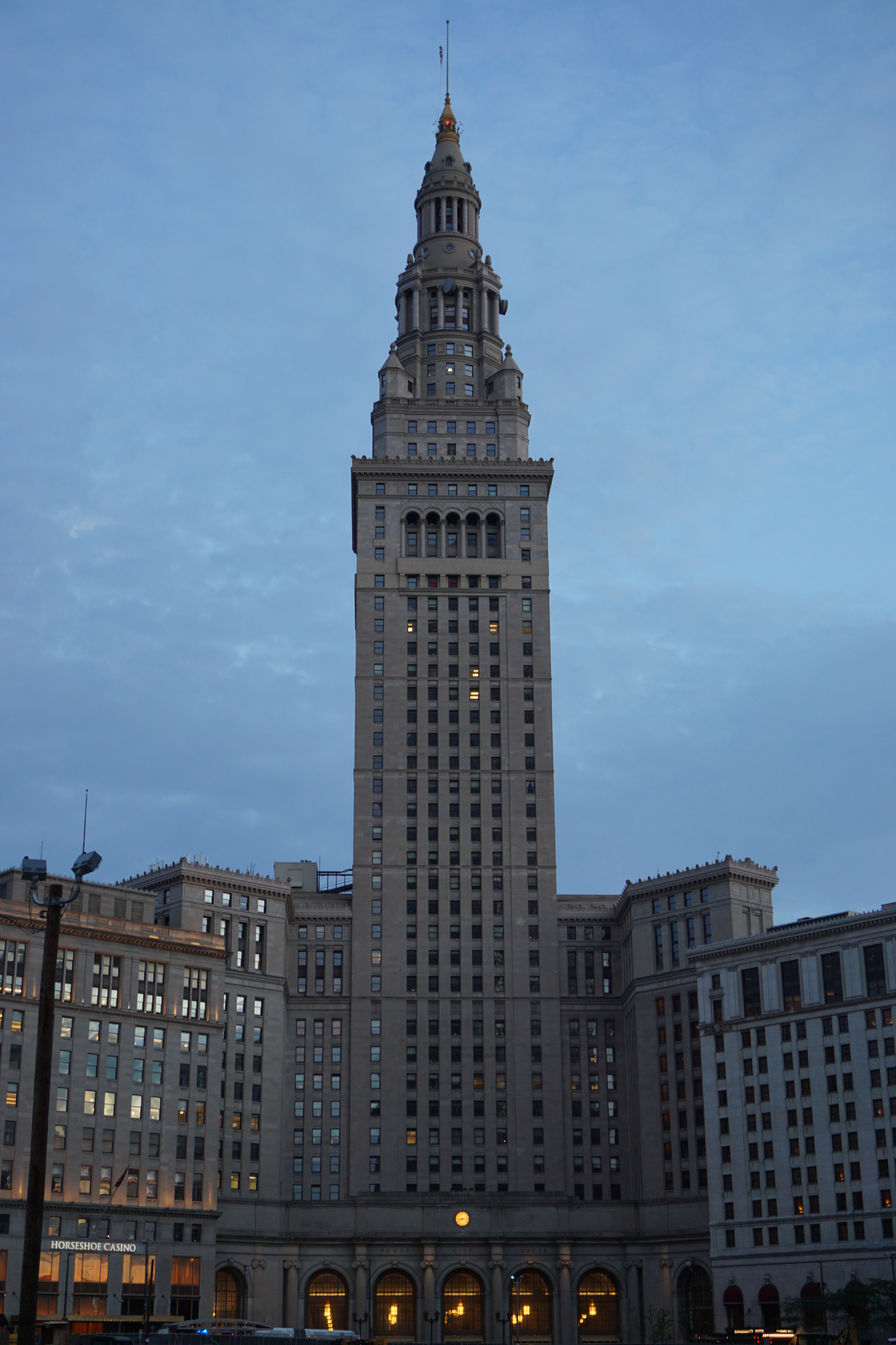 Terminal Tower in Cleveland, Ohio (United States).